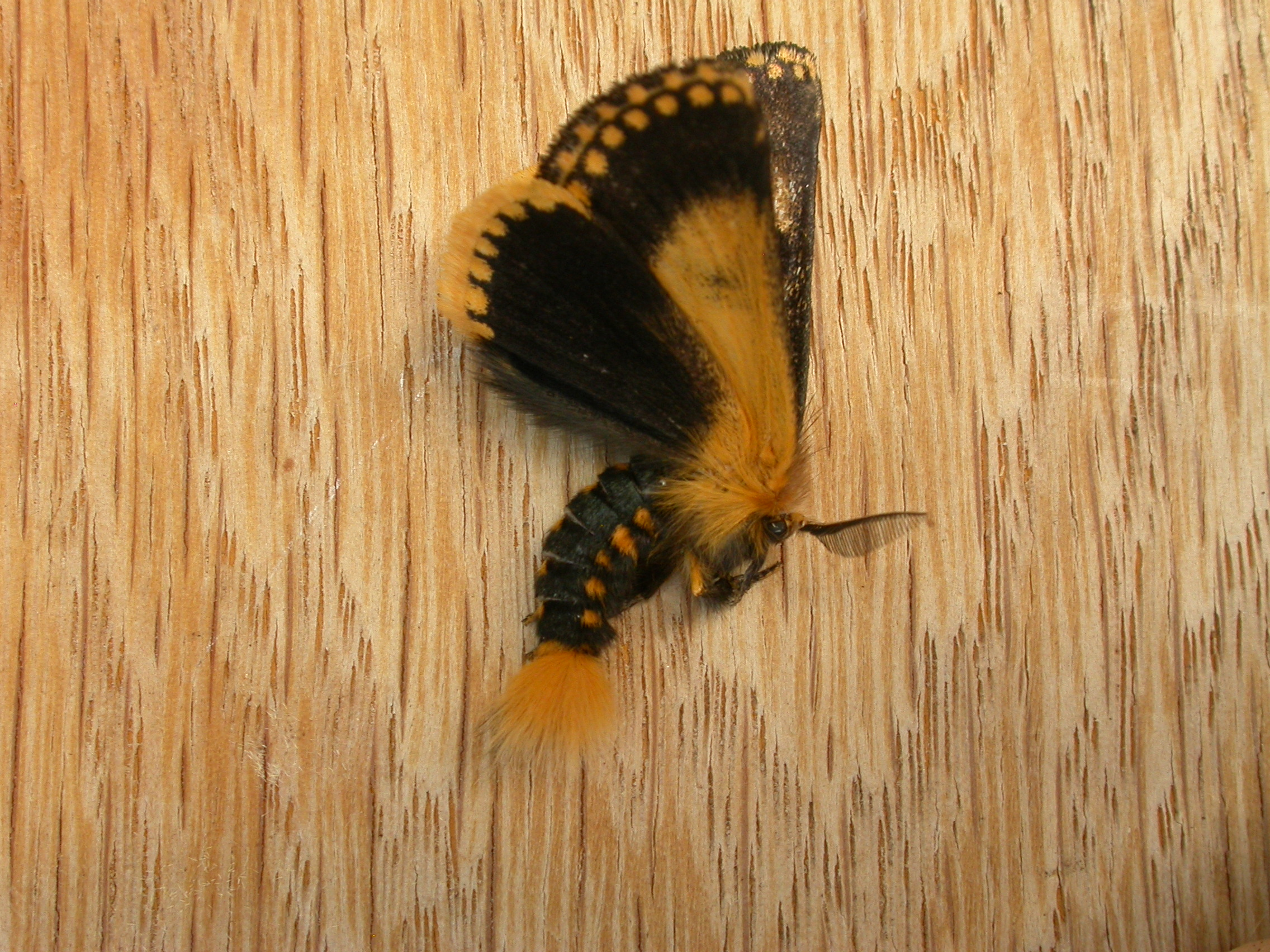 Epicoma contristis (Hübner, 1823), male, to MV light, Aranda, ACT, 26/27 December 2010